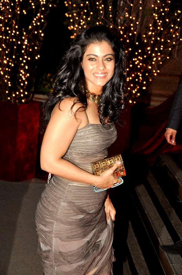 Kajol at Karan Johar's 40th birthday bash at Taj Lands End